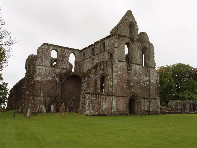 Dundrennan Abbey. This Cistercian abbey was founded in 1142, built just as the Gothic style came into fashion. By the 16th Century the community of monks was diminishing. In 1568 Mary Queen of Scots spent her last night in Scotland here. It fell into ruins, and is now preserved by Historic Scotland.